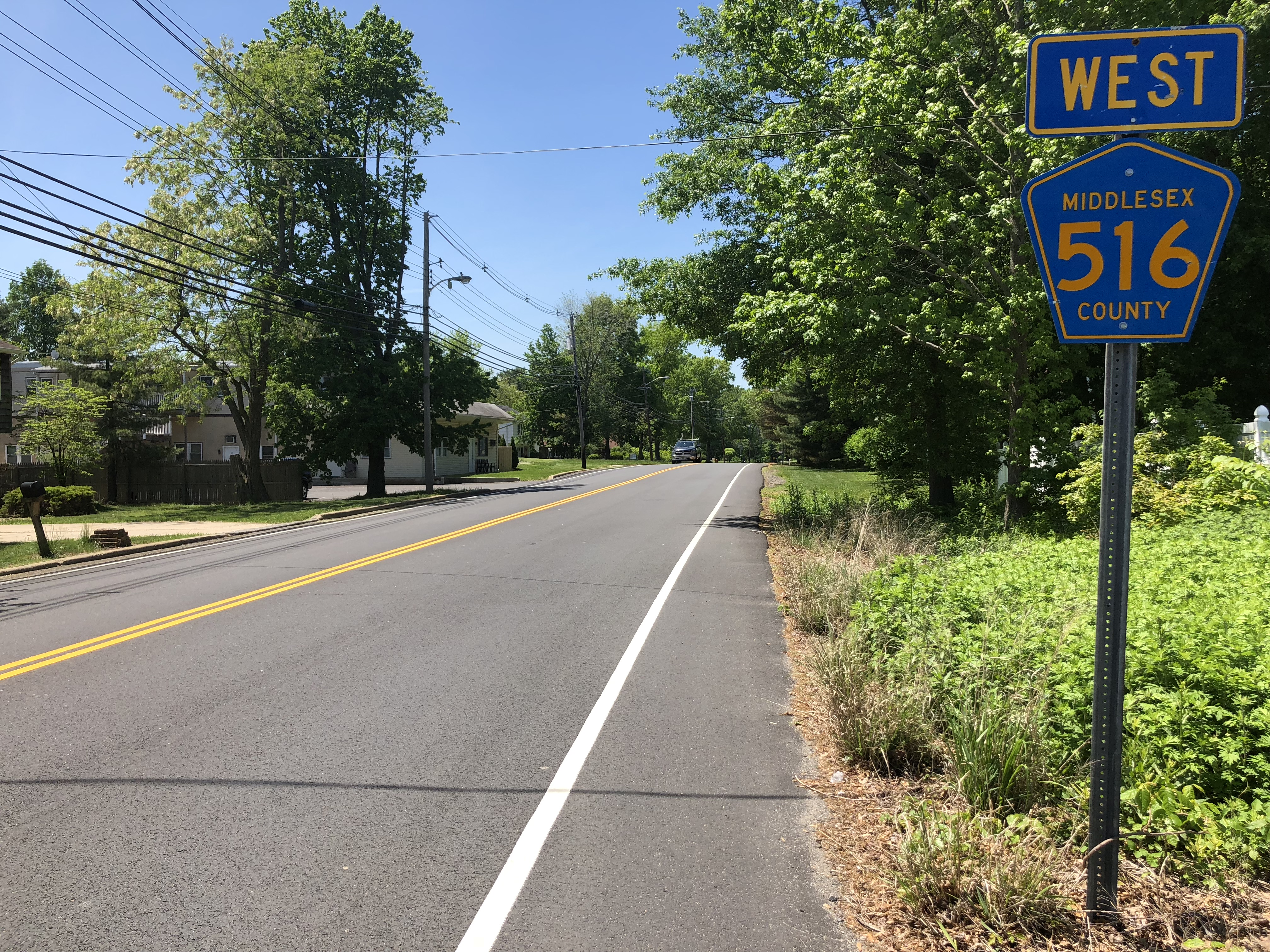 View west along Middlesex County Route 516 (Old Bridge-Matawan Road) at Middlesex County Route 689 (Amboy Road) in Old Bridge Township, Middlesex County, New Jersey